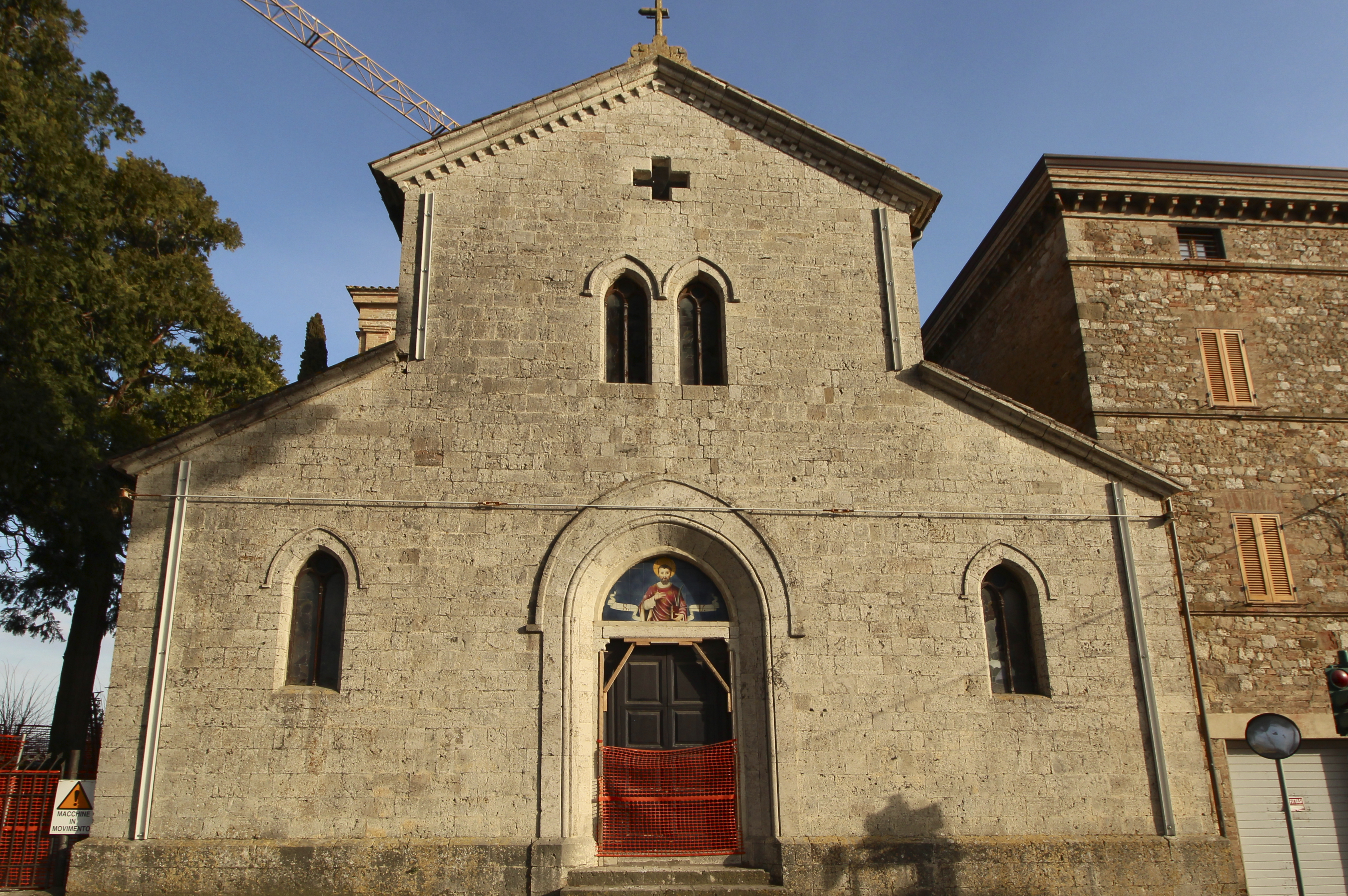 Church San Valentino, San Valentino della Collina, hamlet of Marsciano, Province of Perugia, Umbria, Italy